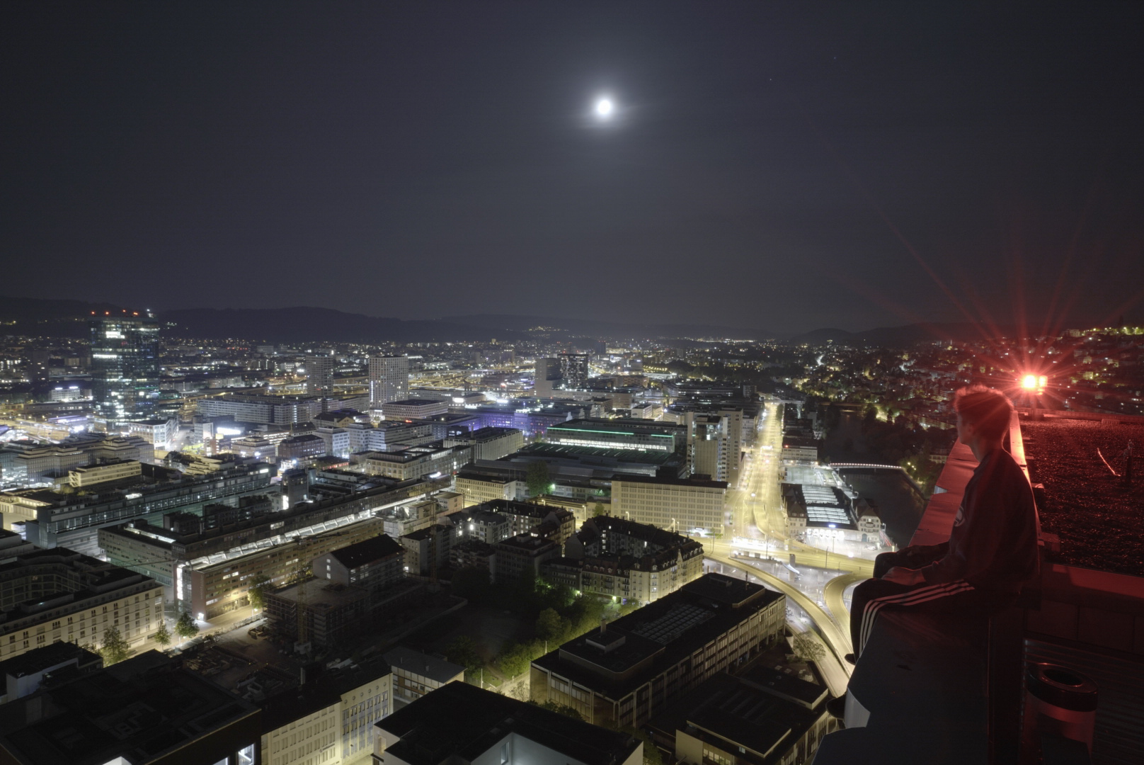 A rooftopper sits at the edge of the roof from the Swissmill-Tower in Zurich, Switzerland.